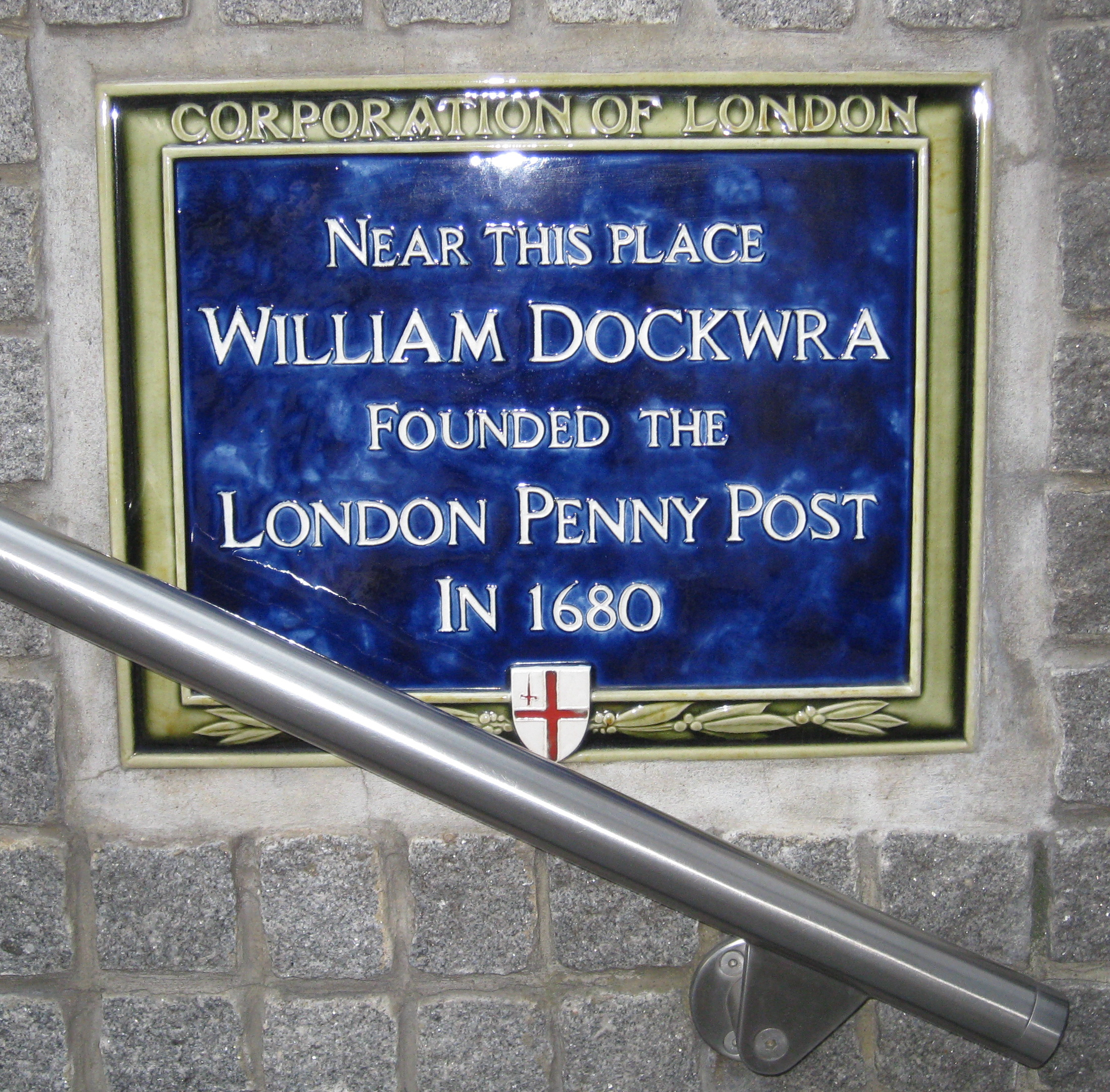 Corporation of London plaque on Lime Street, London EC3, by stairs beside the Lloyds Building